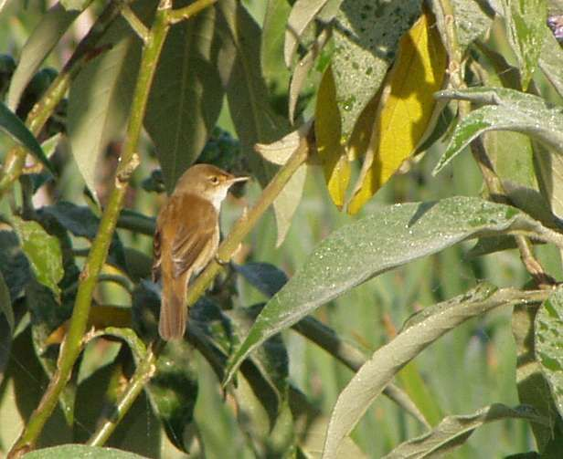 African Reed Warbler (Acrocephalus baeticatus). Location: Darville, Pietermaritzburg, South Africa.